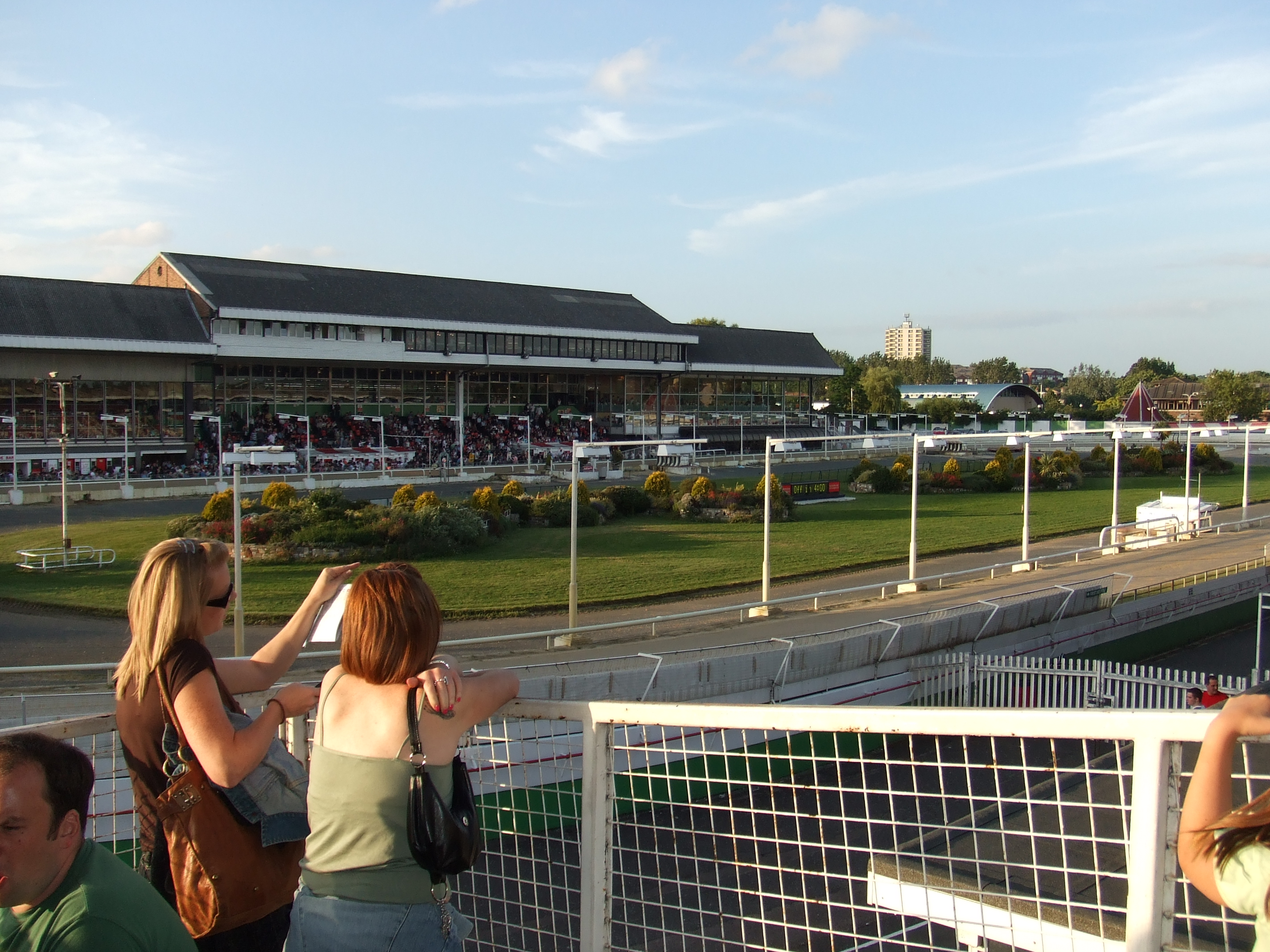 Walthamstow greyhound racing stadium,near to Walthamstow, Waltham Forest, Great Britain.